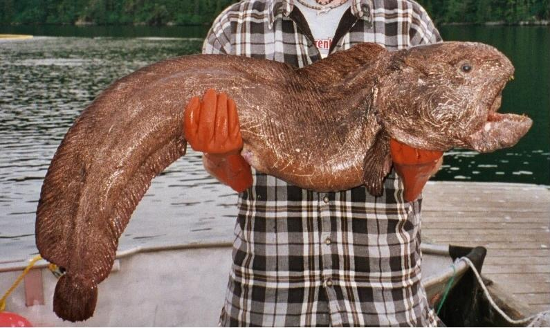 A 42" male Bering Wolffish(Anarhichas orientalis) caught in Prince William Sound.